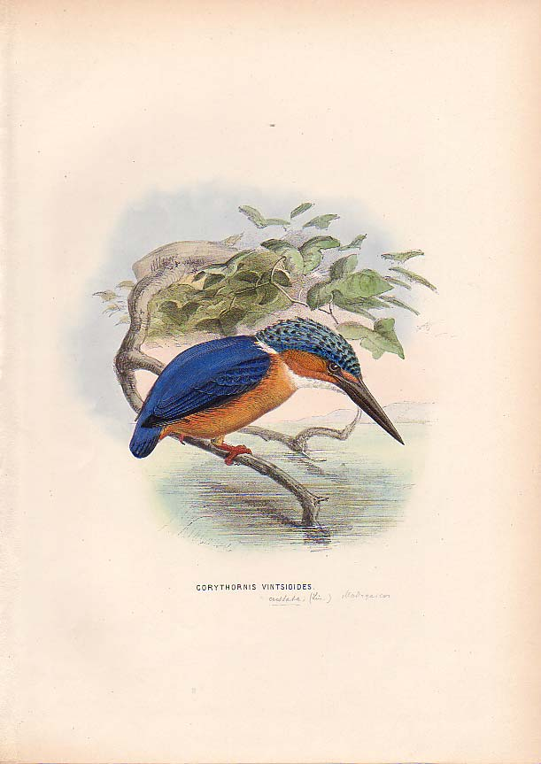 Corythornis vintsioides (syn. Alcedo vintsioides) by Keulemans